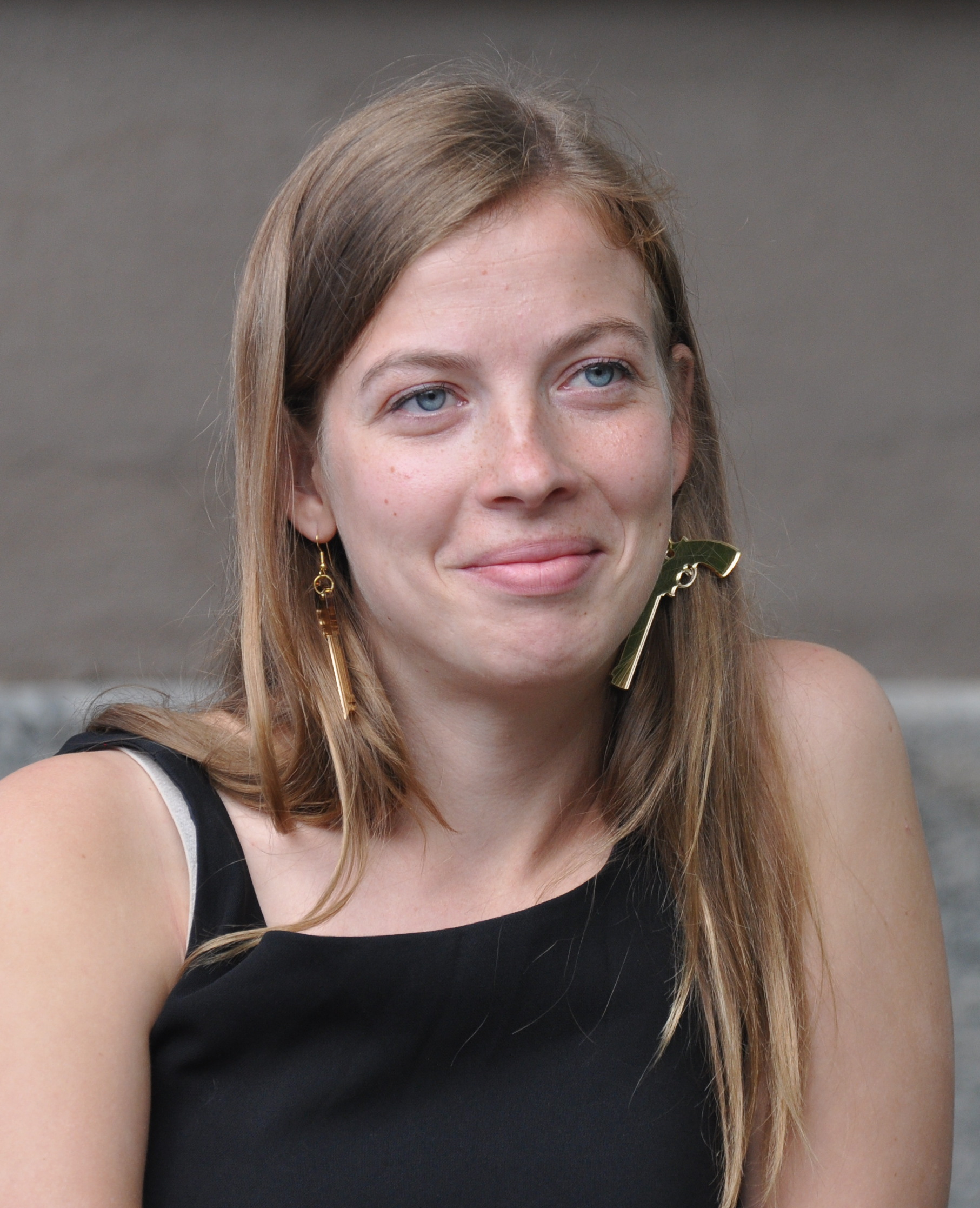 Finnish MP Li Andersson at SuomiAreena in Pori, 2014.